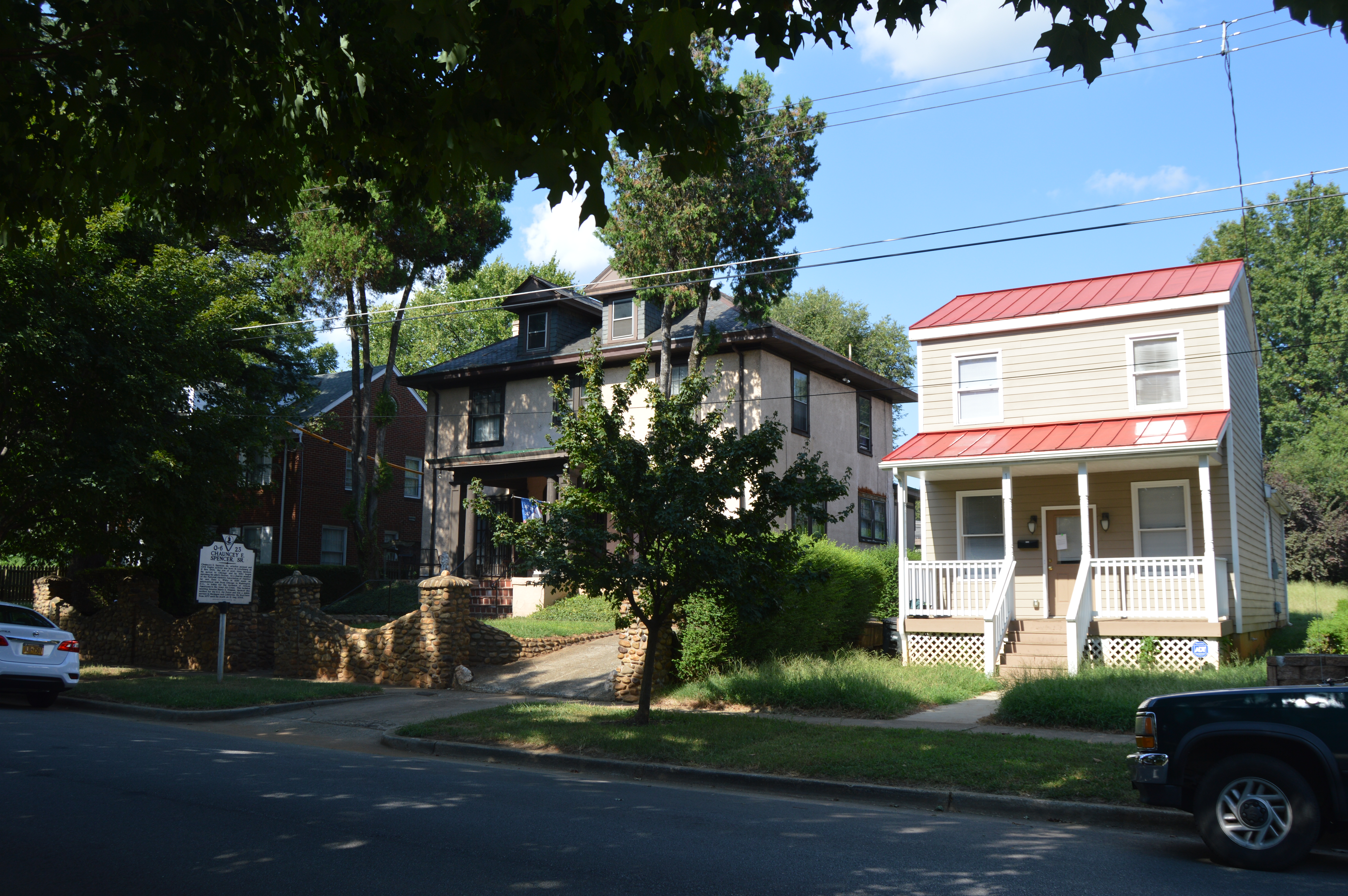 Houses on the eastern side of Pierce Street between Thirteenth and Fourteenth Streets in Lynchburg, Virginia, United States. This block is part of the Pierce Street Historic District, a historic district that is listed on the National Register of Historic Places.